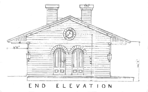 End design of the Grand Trunk 5-bay railway station for use in Canada.